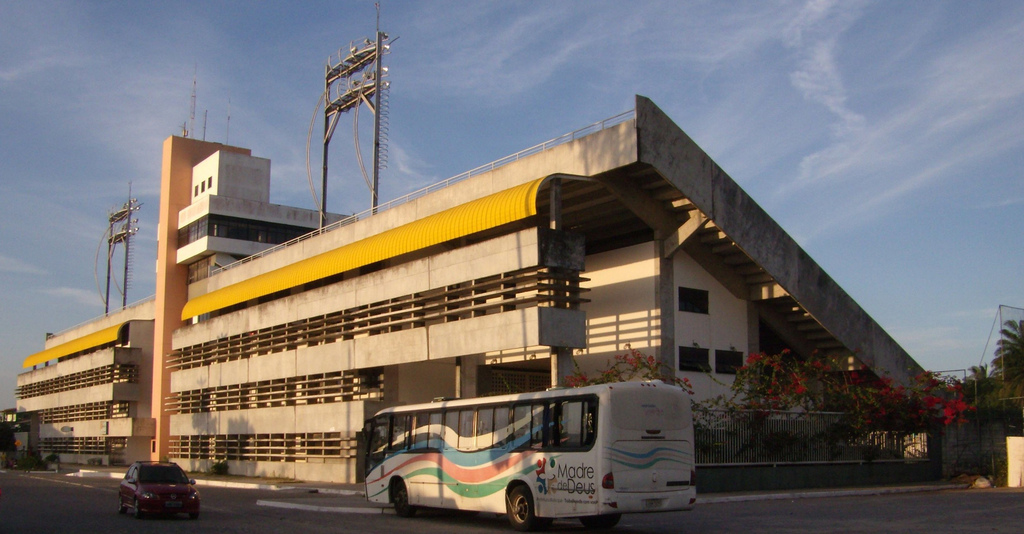 Madre de Deus Municipal Stadium.